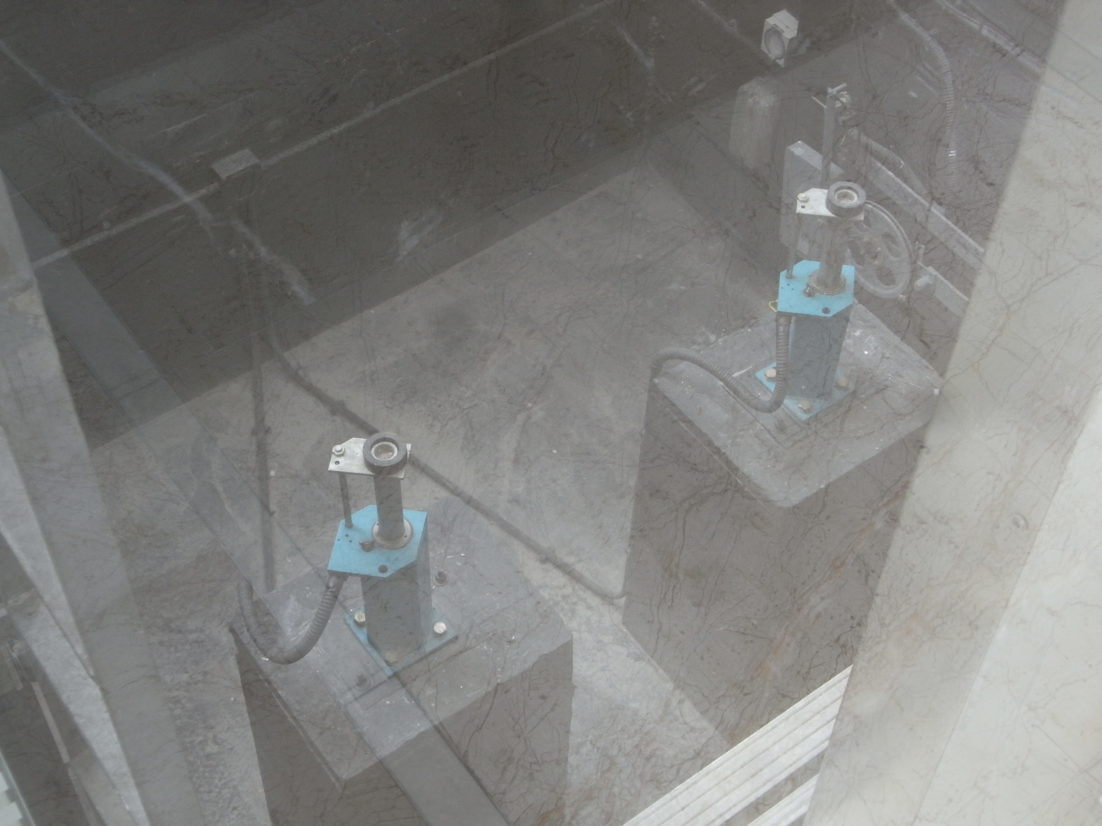 Buffers in the pit of the elevator.